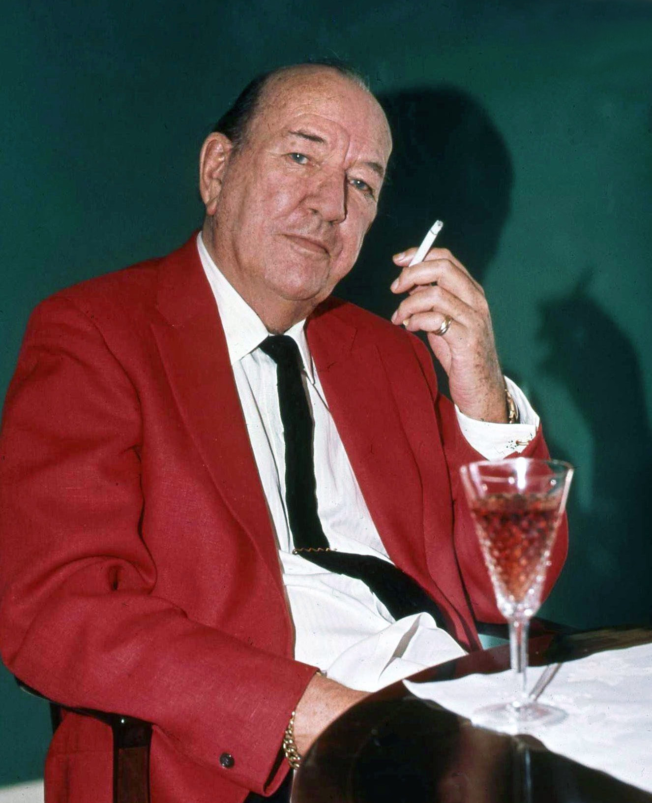 portrait of Sir Noel Coward in his dining room in Les Avants Switzerland